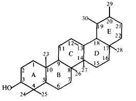 Ghemical structure of alpha-amyrine